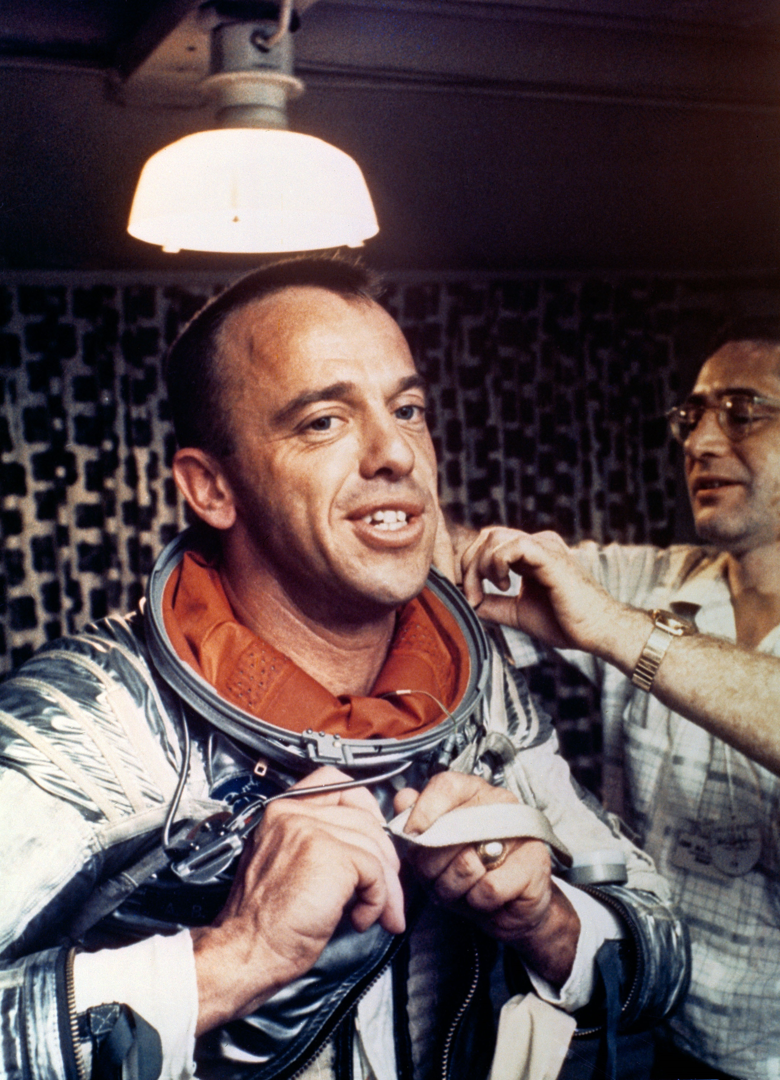 S88-31382 (5 May 1961) --- Astronaut Alan B. Shepard receives assistance in removing his spacesuit while on the U.S. Champlain after the recovery of his Mercury capsule.